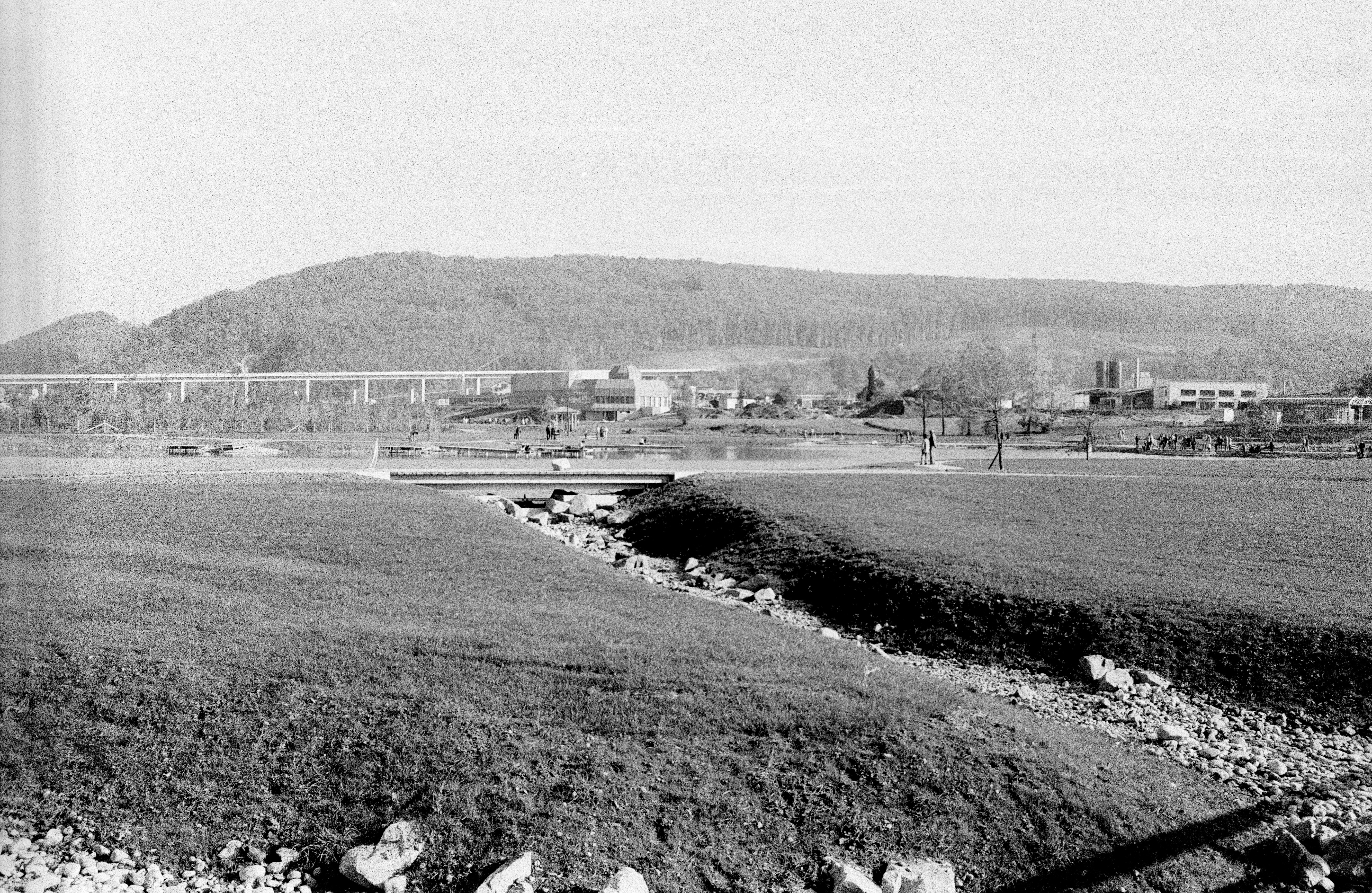 Grüttsee (Grütt-Lake) in the Grüttpark in Lörrach